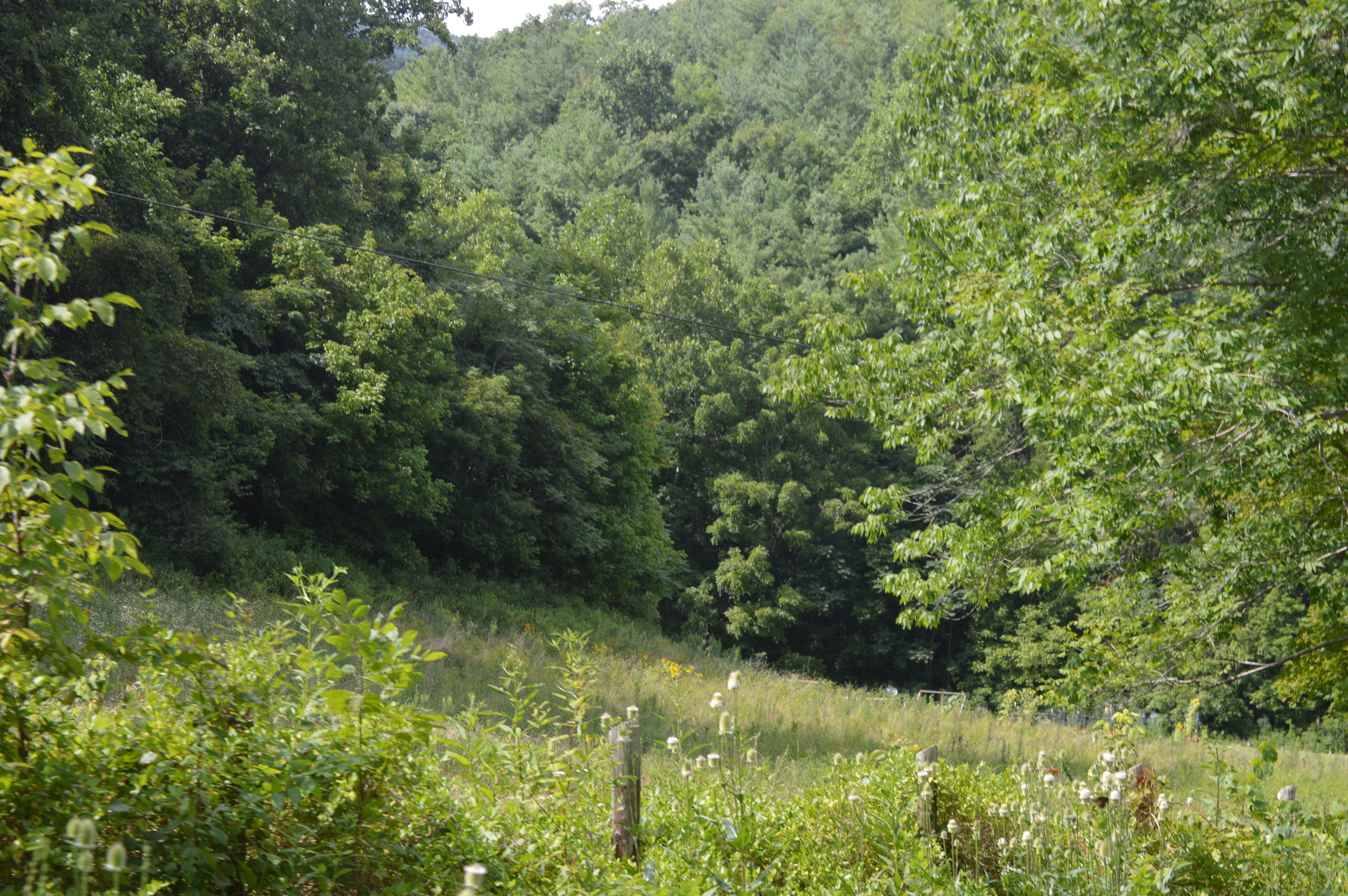 A forest meadow on the western side of Big Hill Road northwest of Lexington in Rockbridge County, Virginia, United States. This meadow, situated at the southern (low) end of Anderson Hollow, is included in the Anderson Hollow Archaeological District, a historic district composed of multiple archaeological sites; it is listed on the National Register of Historic Places.